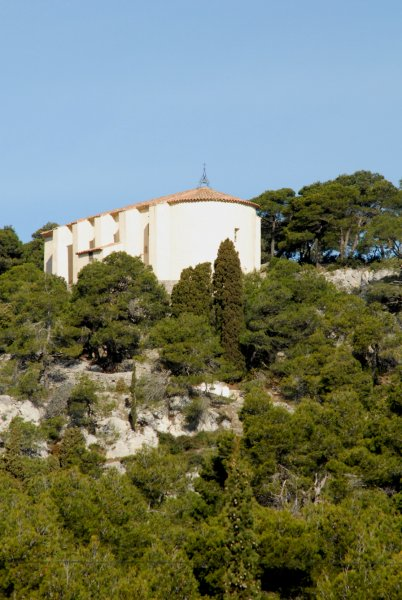 Chapelle Notre Dame des Auzils